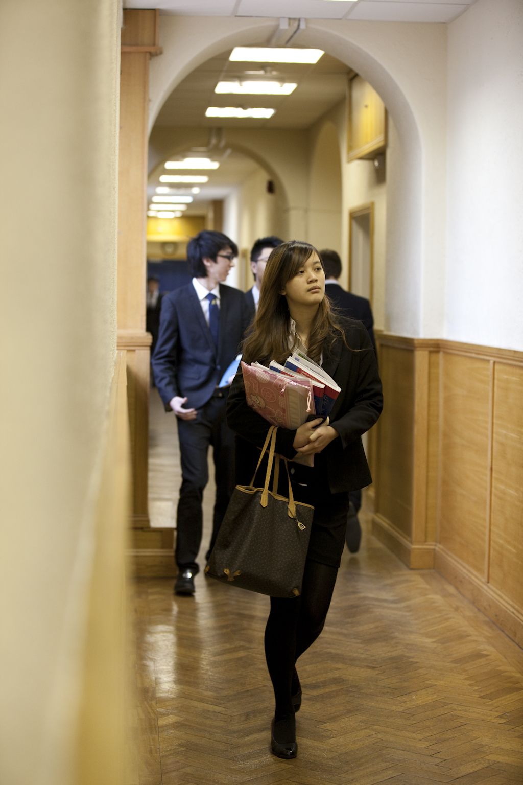 Ruthin School, Mold Road, Ruthin, Denbighshire, Wales UK +441824 702543